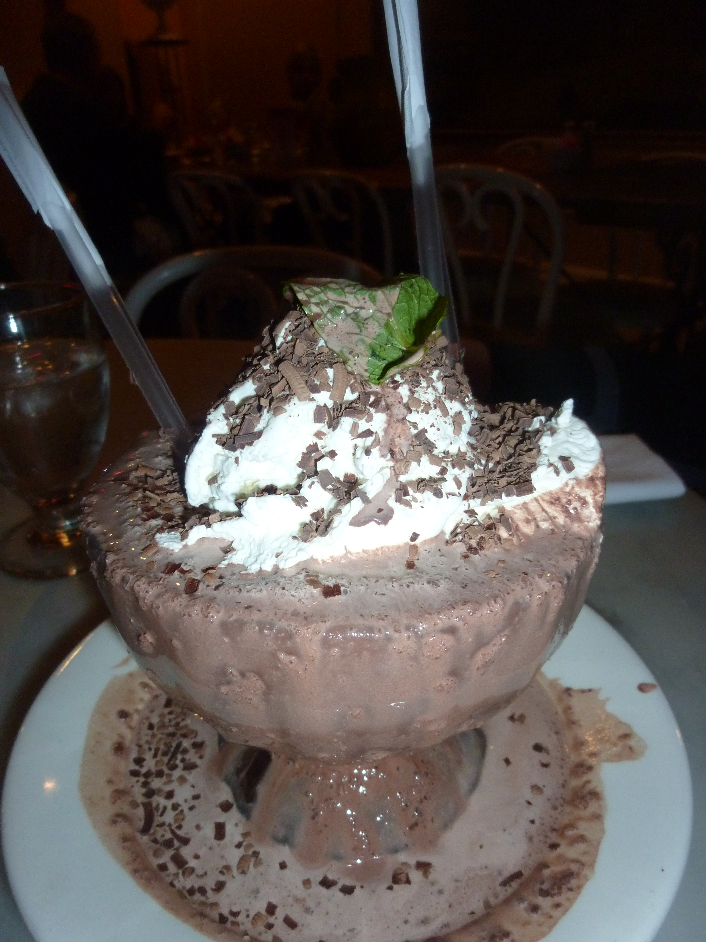 mint iced hot chocolate at serendipity 3 in new york city